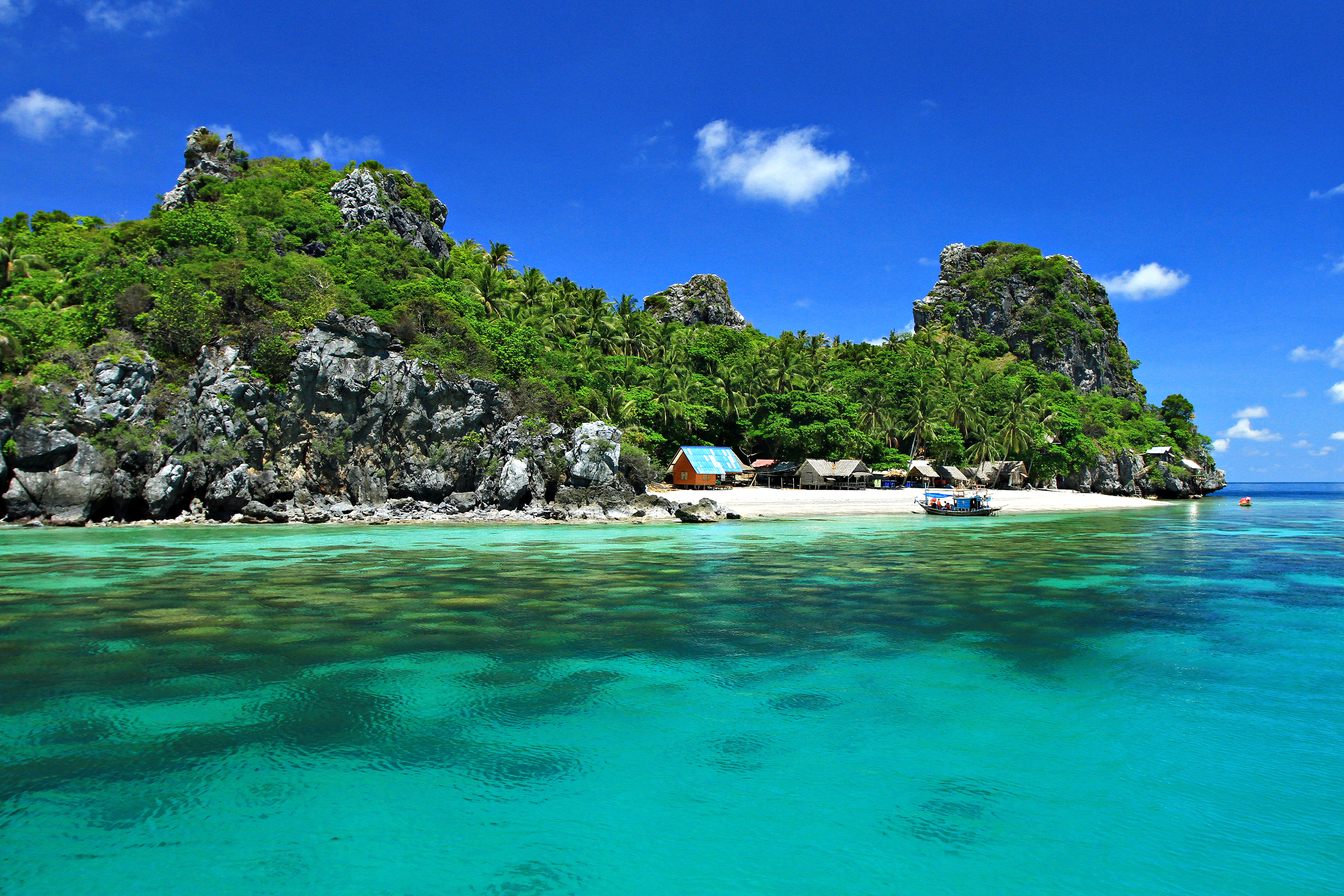 The Chumphon area is popular with Bangkok residents as it is the Gulf’s nearest southern diving destination offering a wide selection of attractions, both natural and man-made, including spectacular beaches, over 40 perme-able-limestone islands, picturesque landscapes featuring waterfalls, caves and holy shrines. The other main islands in the group are; Ko NgamYai (east Cliff Rocks, Ko means island), Ko Ngam Noi , Ko Kalok , Ko Thalu , Ko Lak Ngam , Ko Samet , Ko Mattra, Ko Maphrao , Ko Lak Raet, Ko Lawa, Ko Kula , Ko Rang Ka Chiu , Ko Klaep , and Ko Khram. Some parts of the park are included several hills eg. Khao Phongphang, Khao Bo Kha and Khao Chom Hiang where the highest peak located at the elevation of 255 m above MSL. Mu Ko Chumphon National Park covers a total area of 317 sq.kms. It also covers 70 km of the coast which includes sandy beach and mud flat. The park is relatively close to Chumphon town located 30 kms east in Hat Sai Ri.